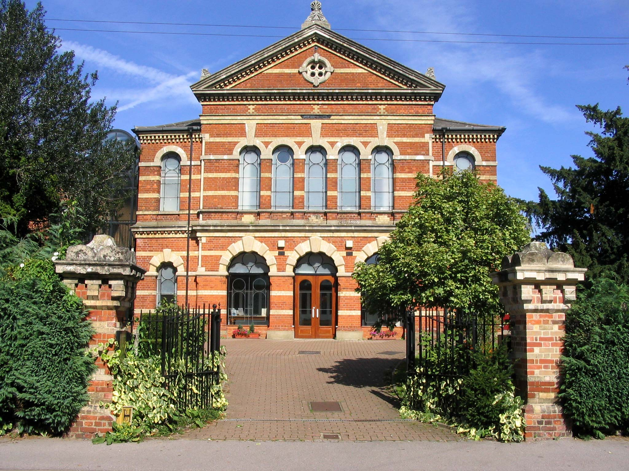 Wokingham Baptist Church, Wokingham, Berkshire, England. Photograph taken by User:Dahliarose on 26th August 2007.